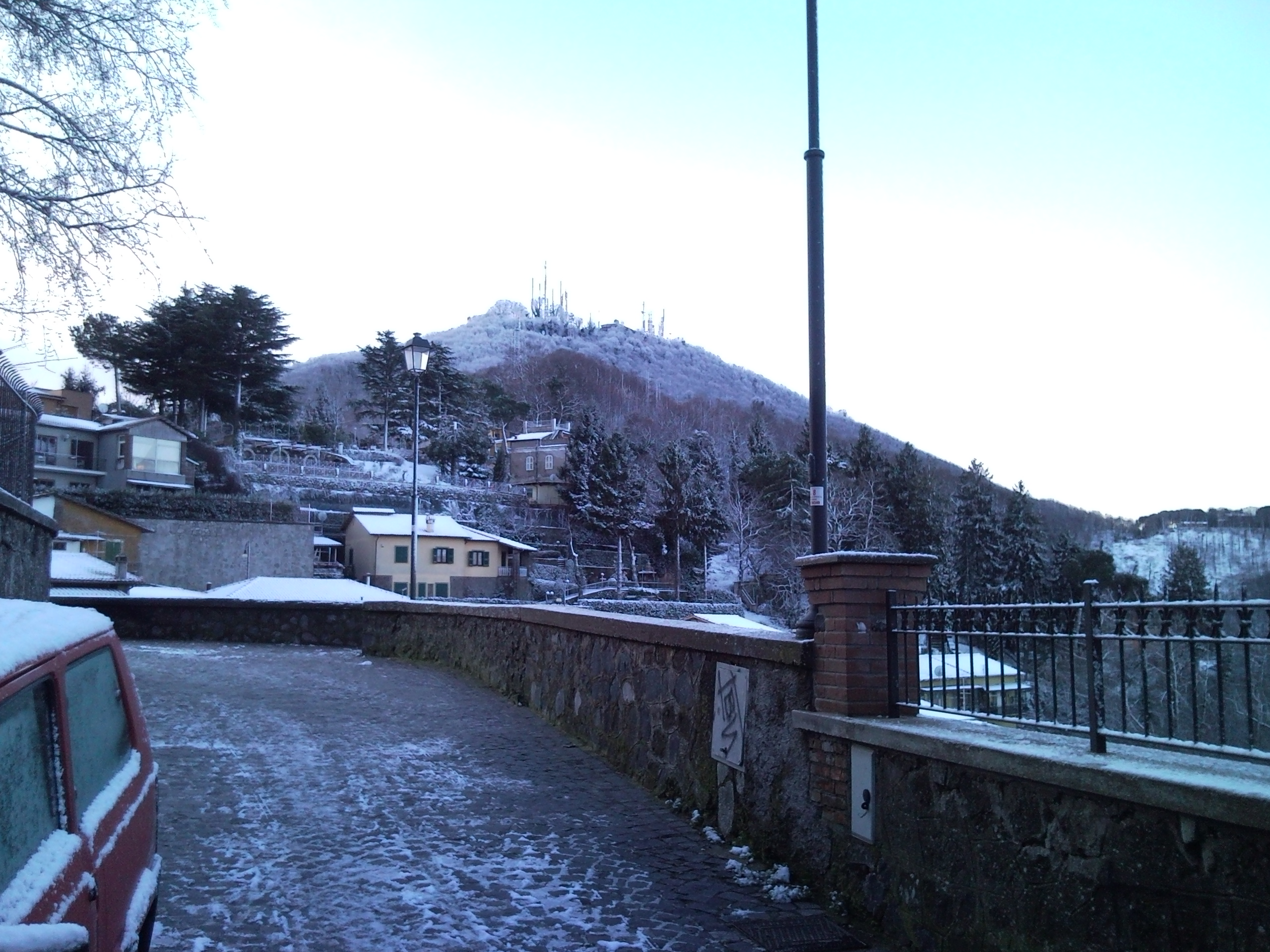 View of Monte Cavo (Rocca di Papa) after a snowfall